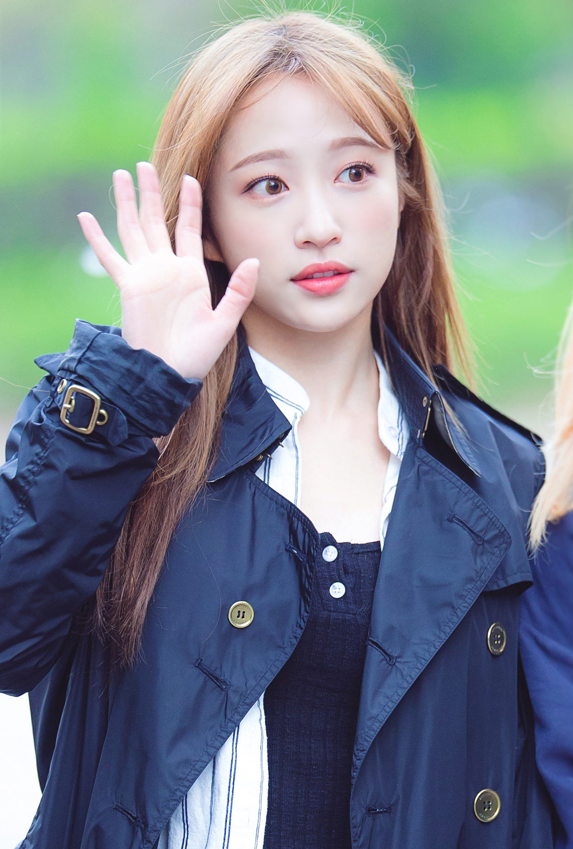 Hani to a Music Bank recording in April 2017.